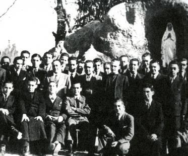 Miembros de la Familia Hurtado en una congregación católica